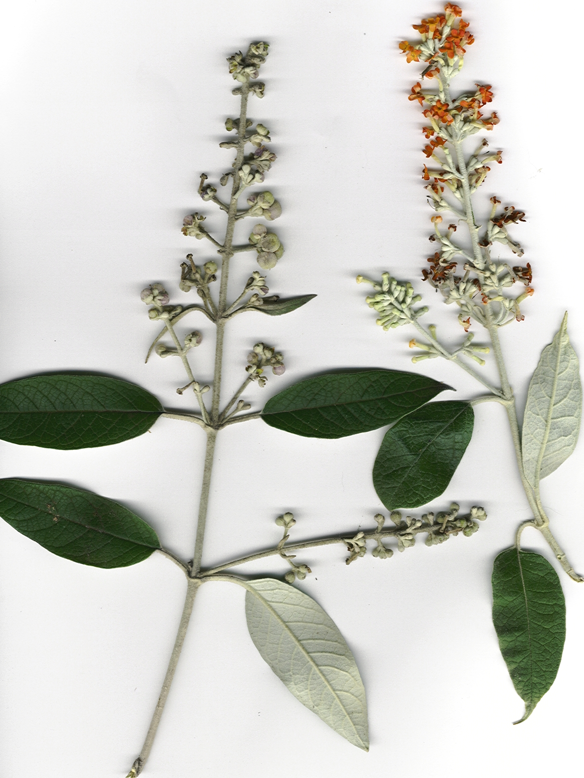 Buddleja madagascariensis (branch). Location: Maui, Kula